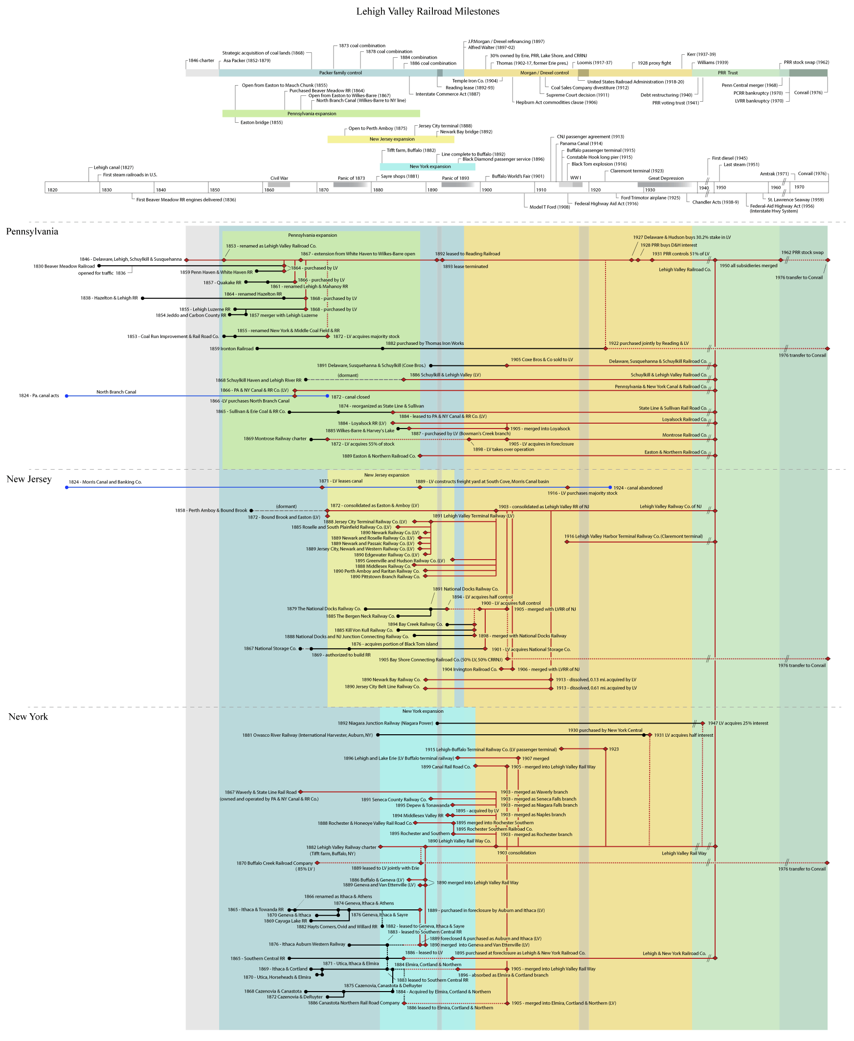 A graphical timeline of the Lehigh Valley Railroad, with significant milestones and the acquisition dates of the Lehigh Valley Railroad predecessors.